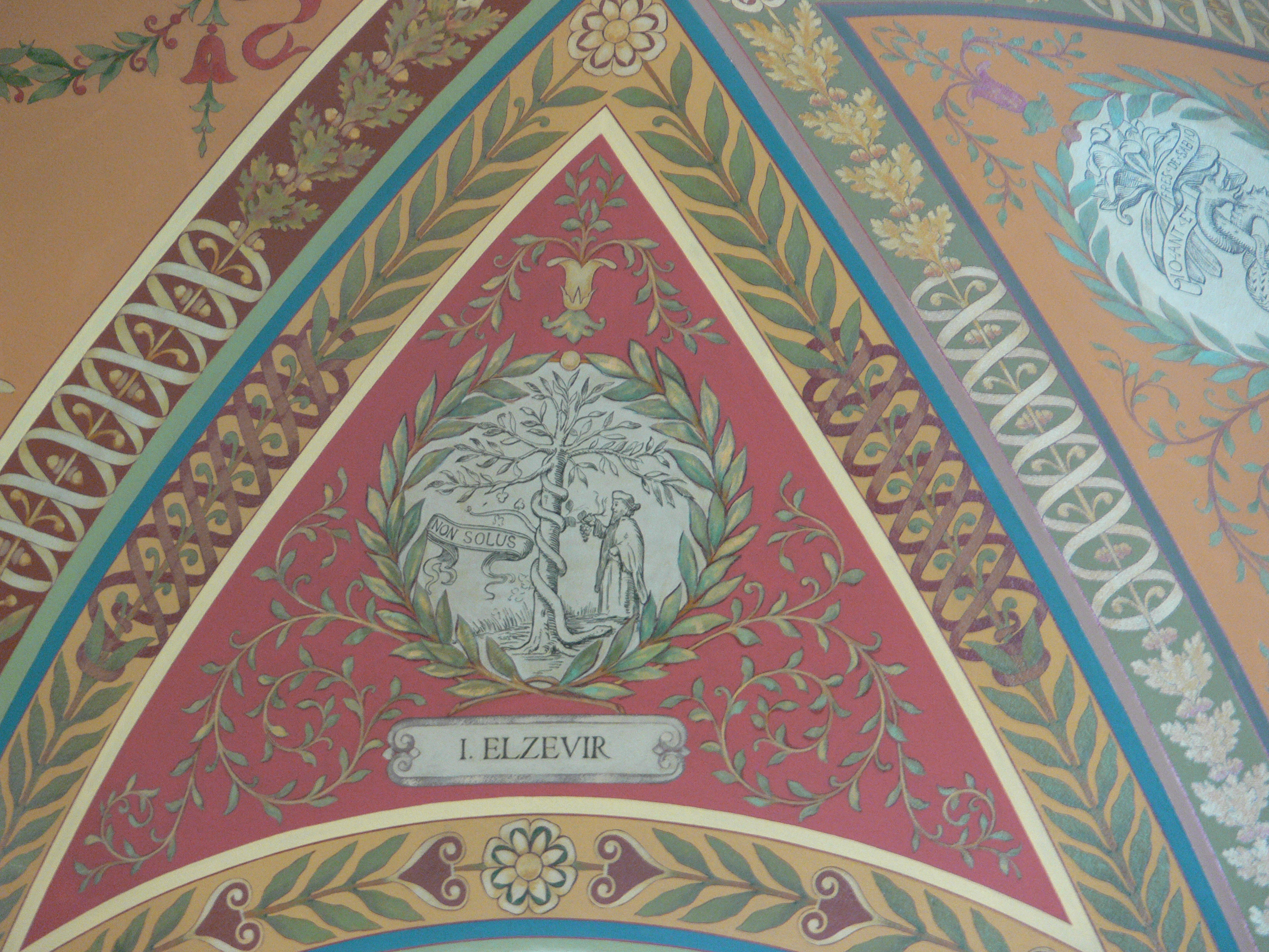 Paintings of printer marks: Isaak Elzevir Great Hall, Library of Congress (Jefferson Building), Washington, D.C.